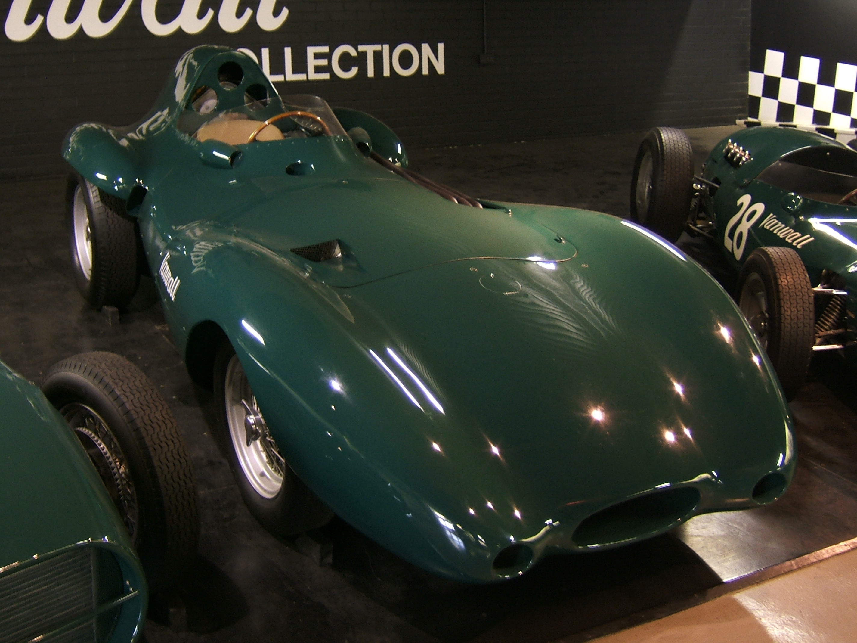 Vanwall VW6, wearing the streamlined bodywork with which it was run at Reims in 1957 by Stuart Lewis-Evans. At the Donington Grand Prix Collection museum, Leics., UK.